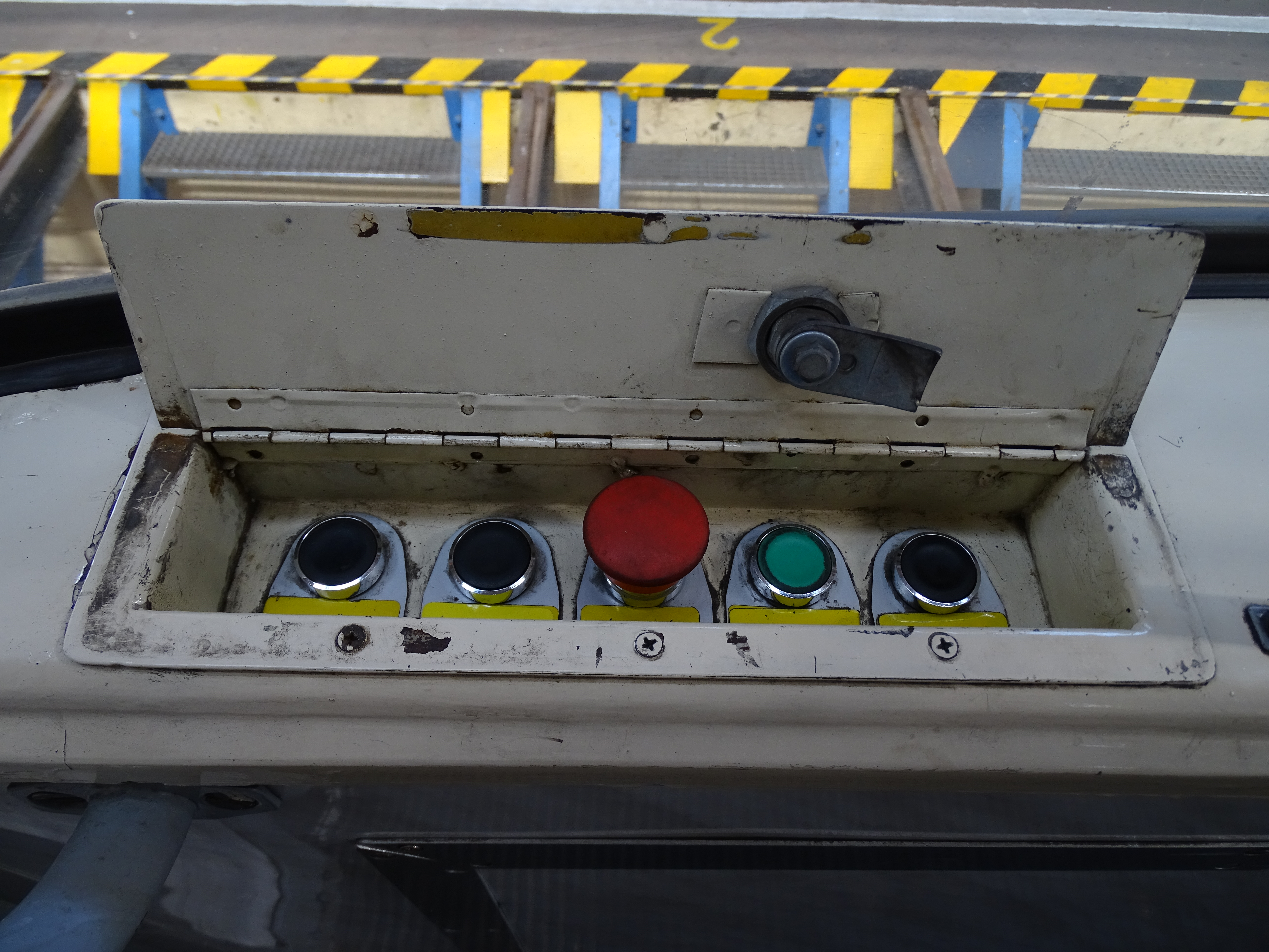 Prague-Strašnice, Czech Republic. Strašnice tram depot, a back-board control box in the tram.